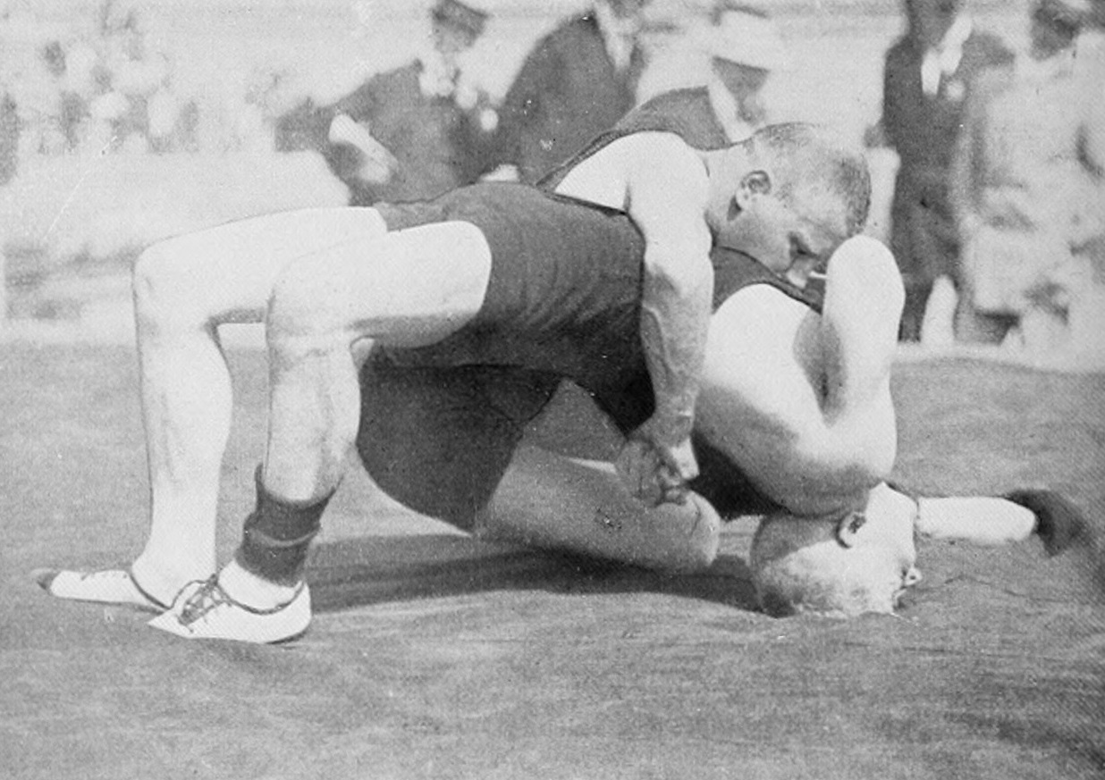 Ragnvald Gullaksen and Ewald Persson in the first round of the wrestling featherweight competition at the 1912 Summer Olympics